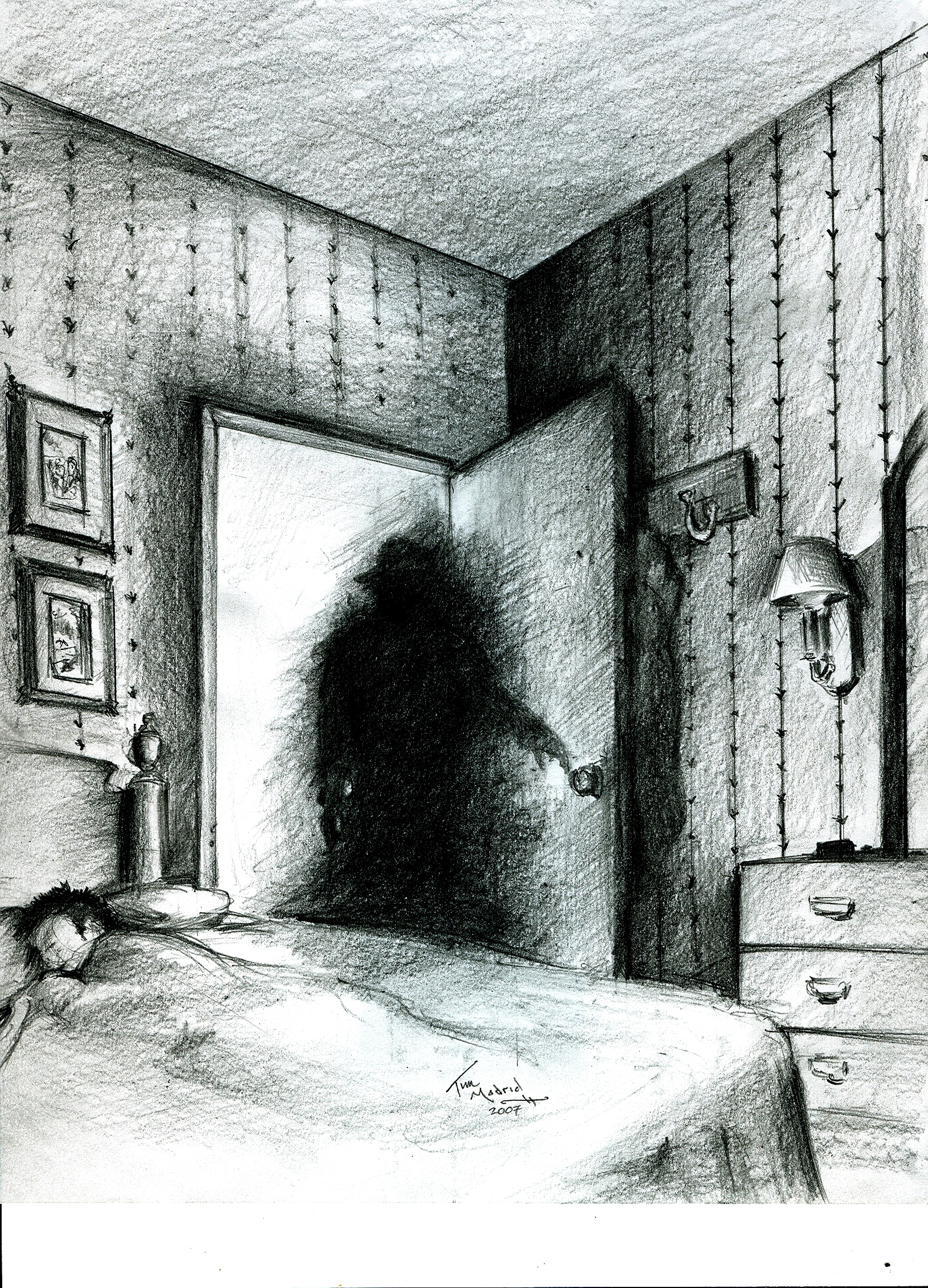 Shadow people (original description)My impression of a shadow person. I am the artist